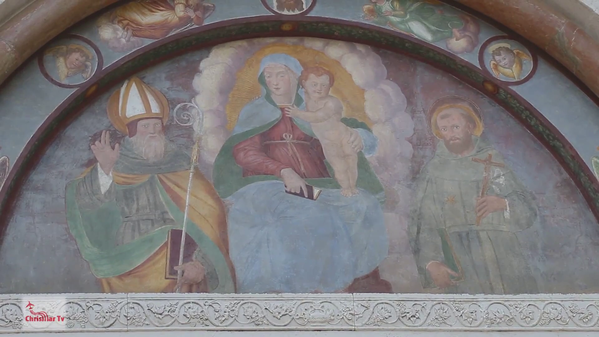 Fresco on the portal of Saint Augustine church - Cittaducale, province of Rieti (central Italy)